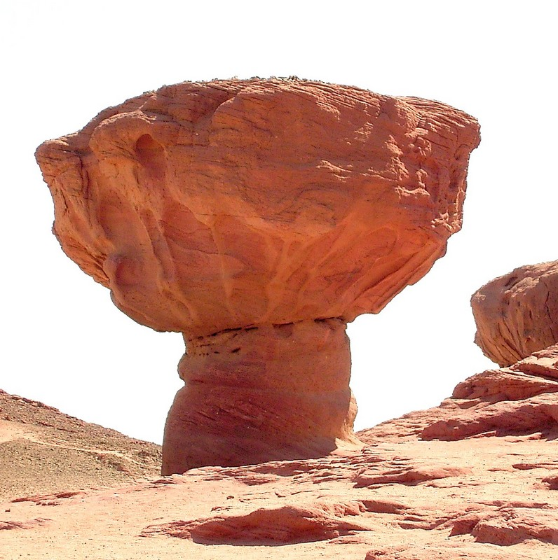 Musroom rock in Tinma